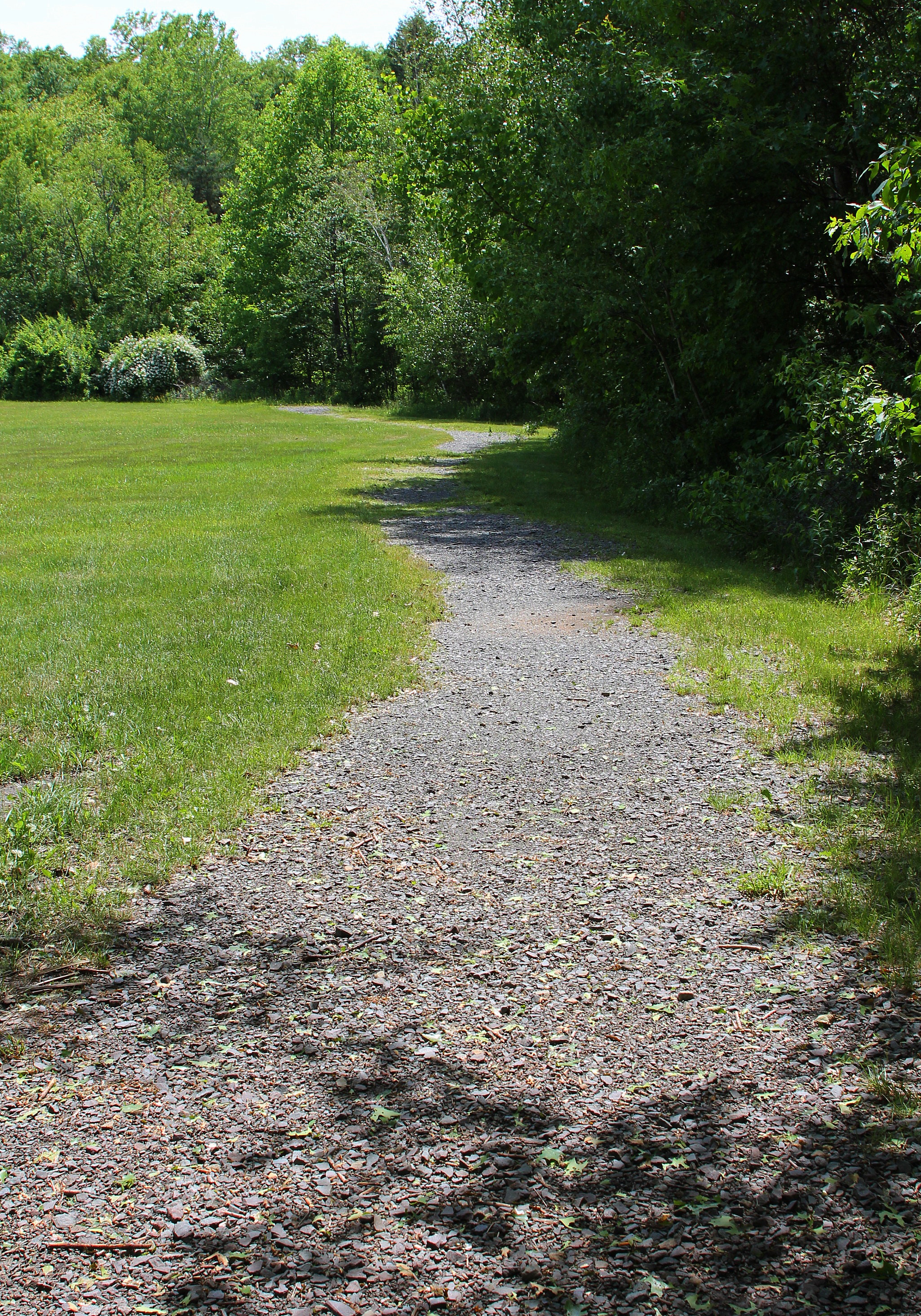 Walking path in the Wright Township Municipal Park, Luzerne County, PA